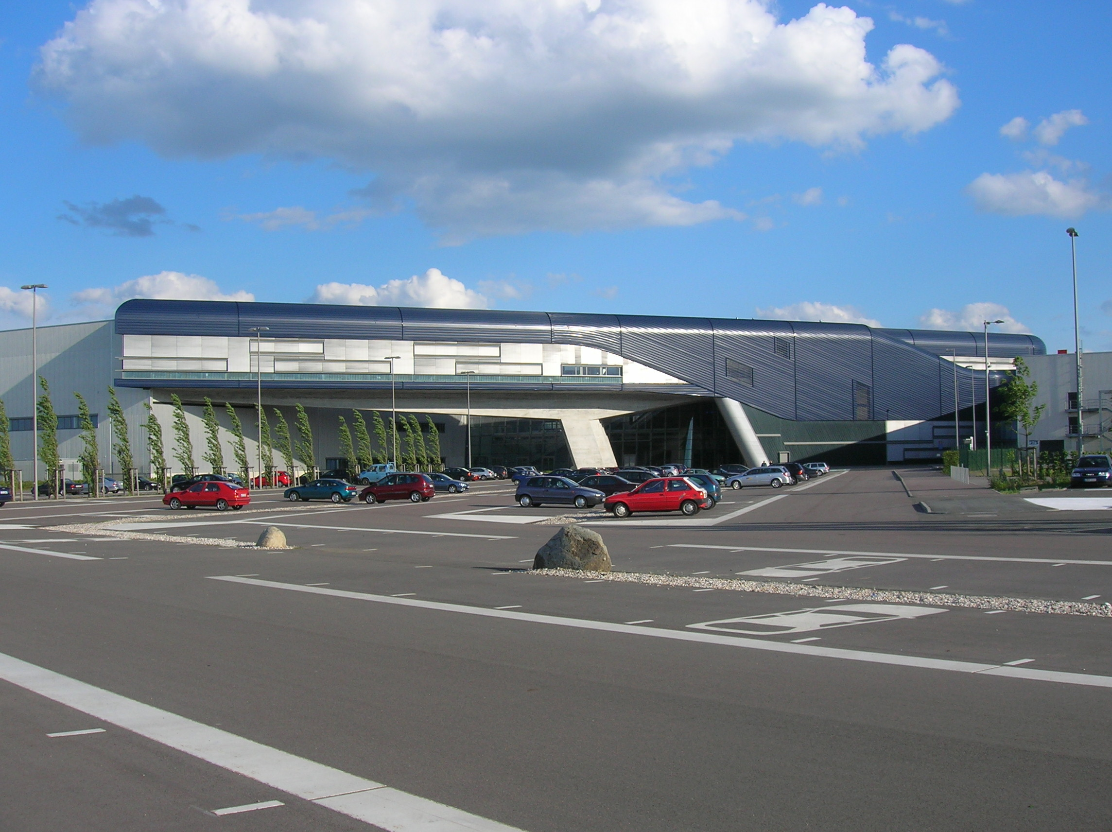 Central Building of the BMW Plant Leipzig.